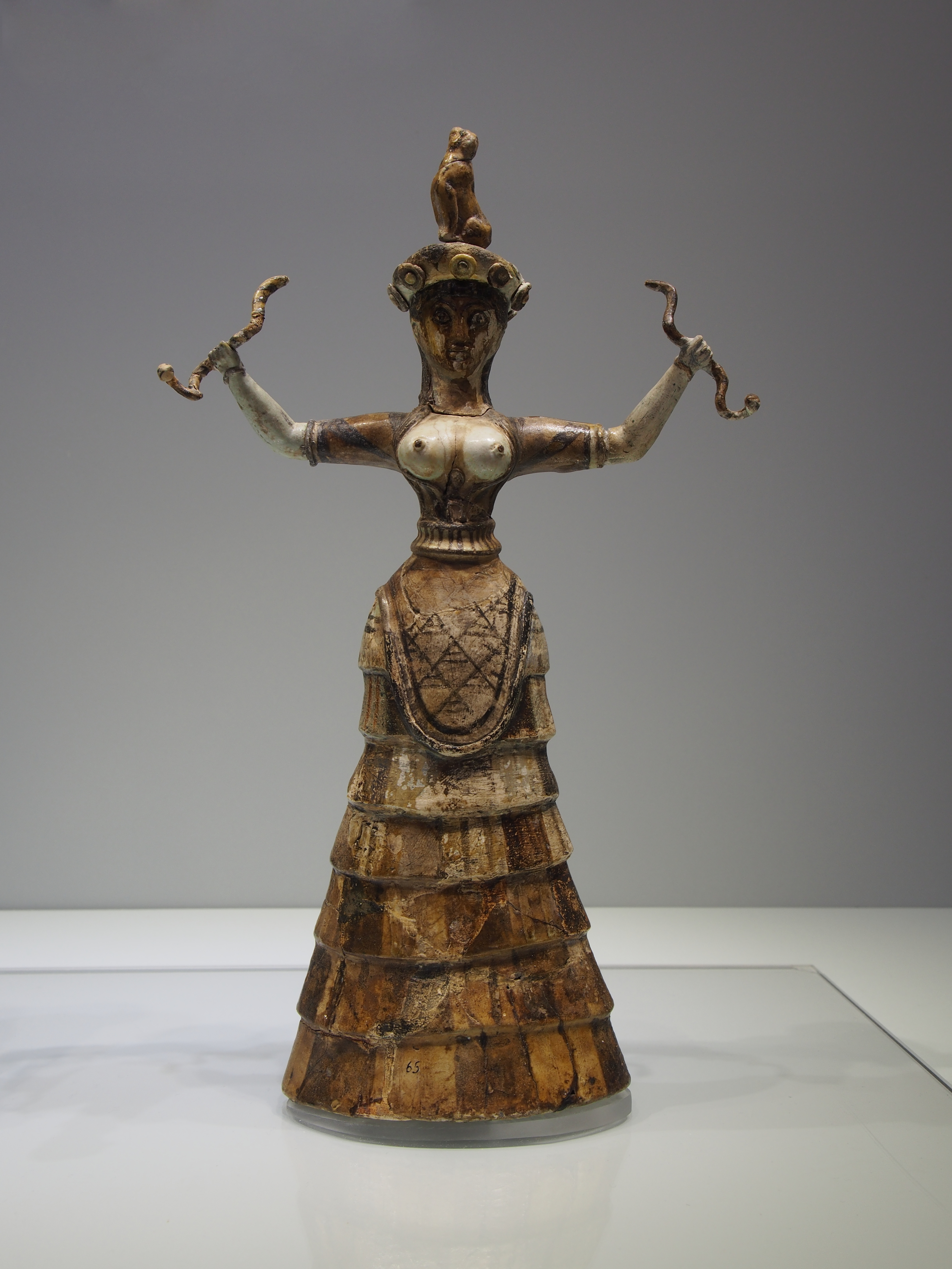 The smaller of the two statues of the snake goddess, the one holding two snakes, one with each hand. It is considered to depict the ground goddess of a snake, maybe the daughter of the goddess.